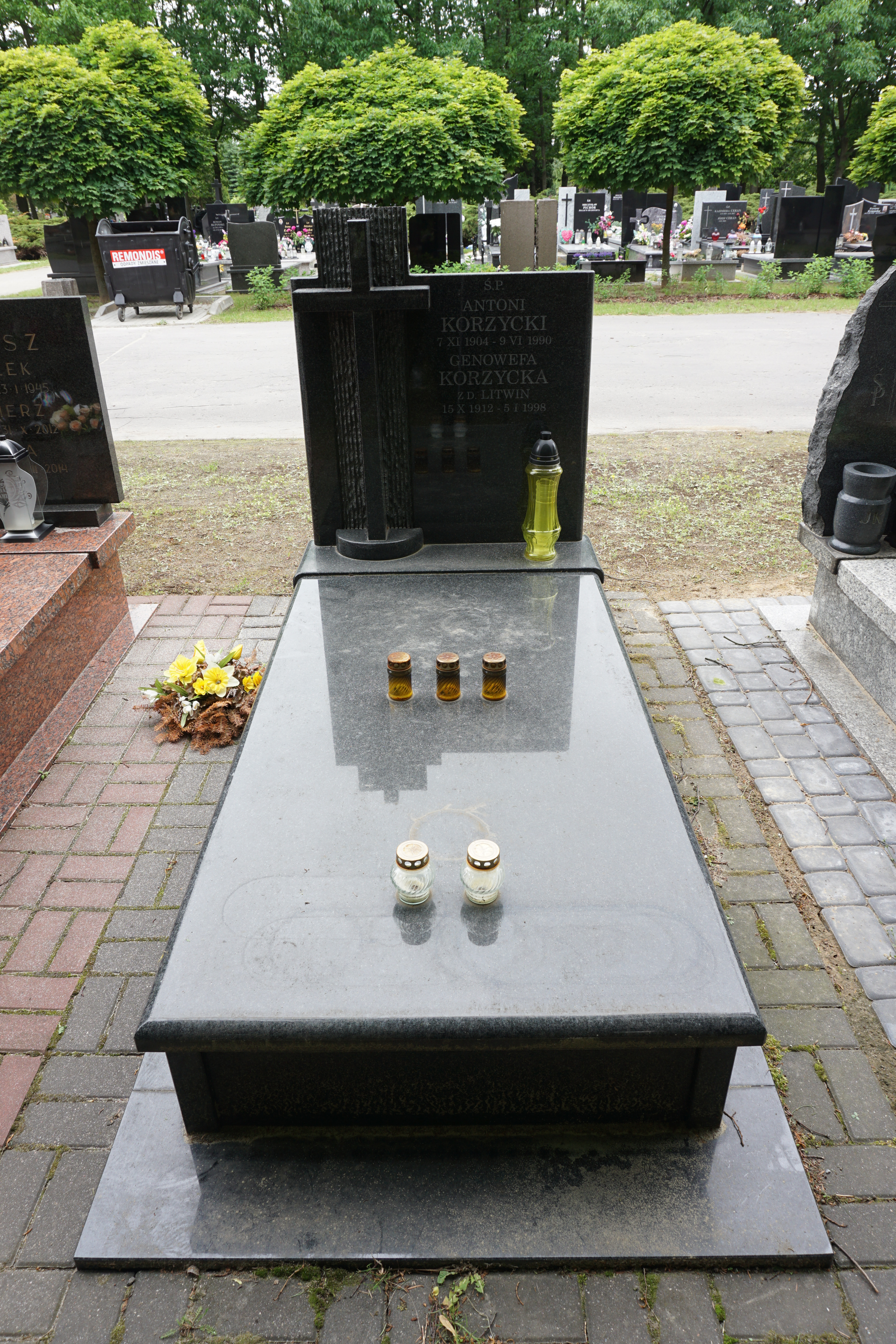 The grave of Antoni Korzycki at the North Municipal Cemetery in Warsaw (section E-XVII-1, row 2, grave 19)